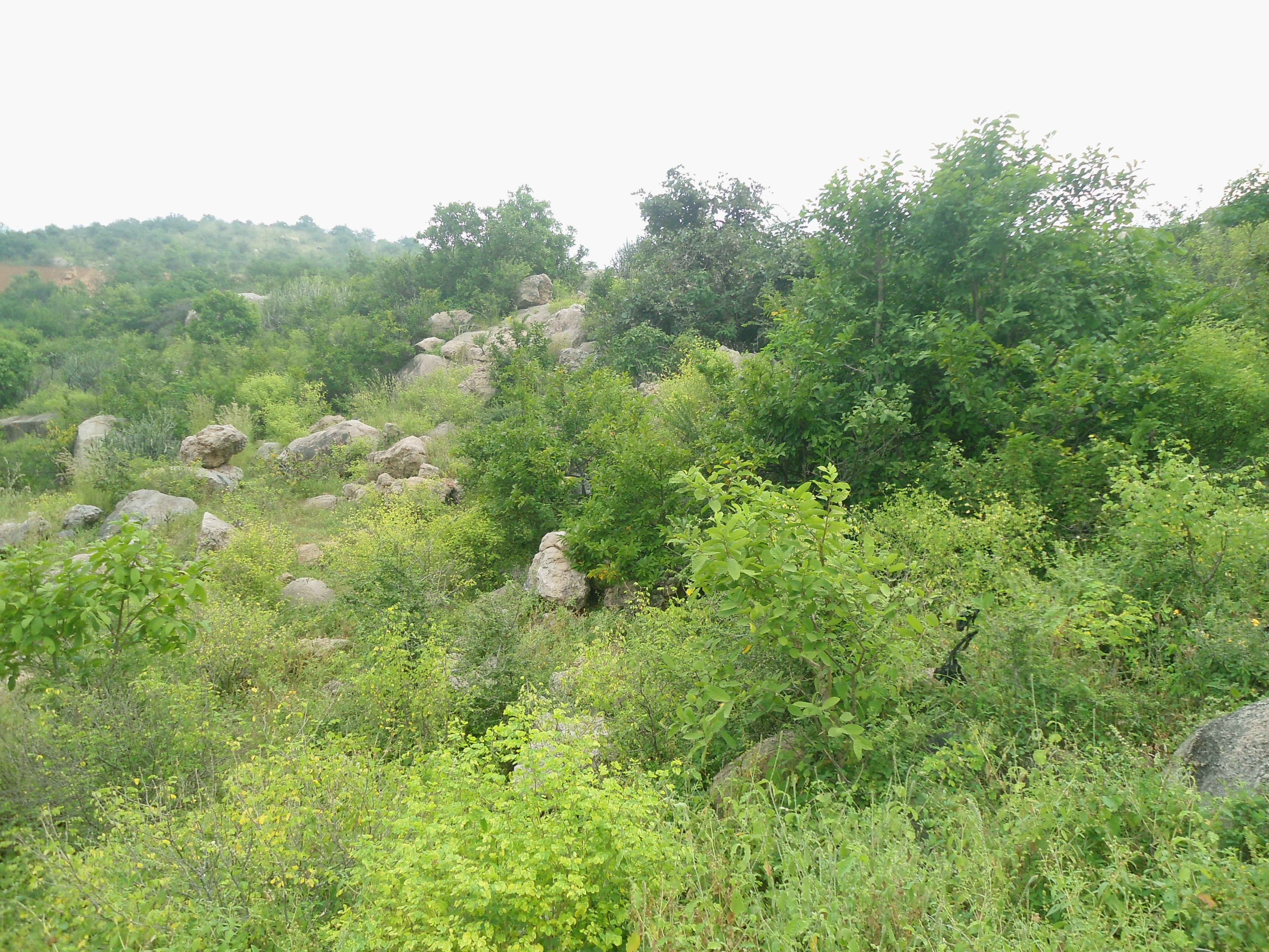 Deccan Scrub Forests at Mastyagiri, Nalgonda district, Andhra Pradesh